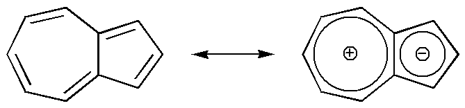 Resonance diagram of azulene.